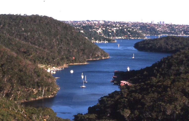 Bantry Bay, Sydney (bushland on either side of bay is part of Garigal NP) (Kodachrome slide scanned at low res, originally taken circa 1985)